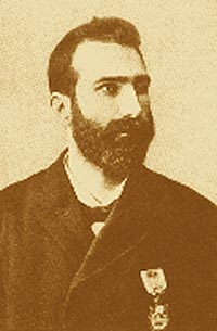 Spiridon Gopcevic